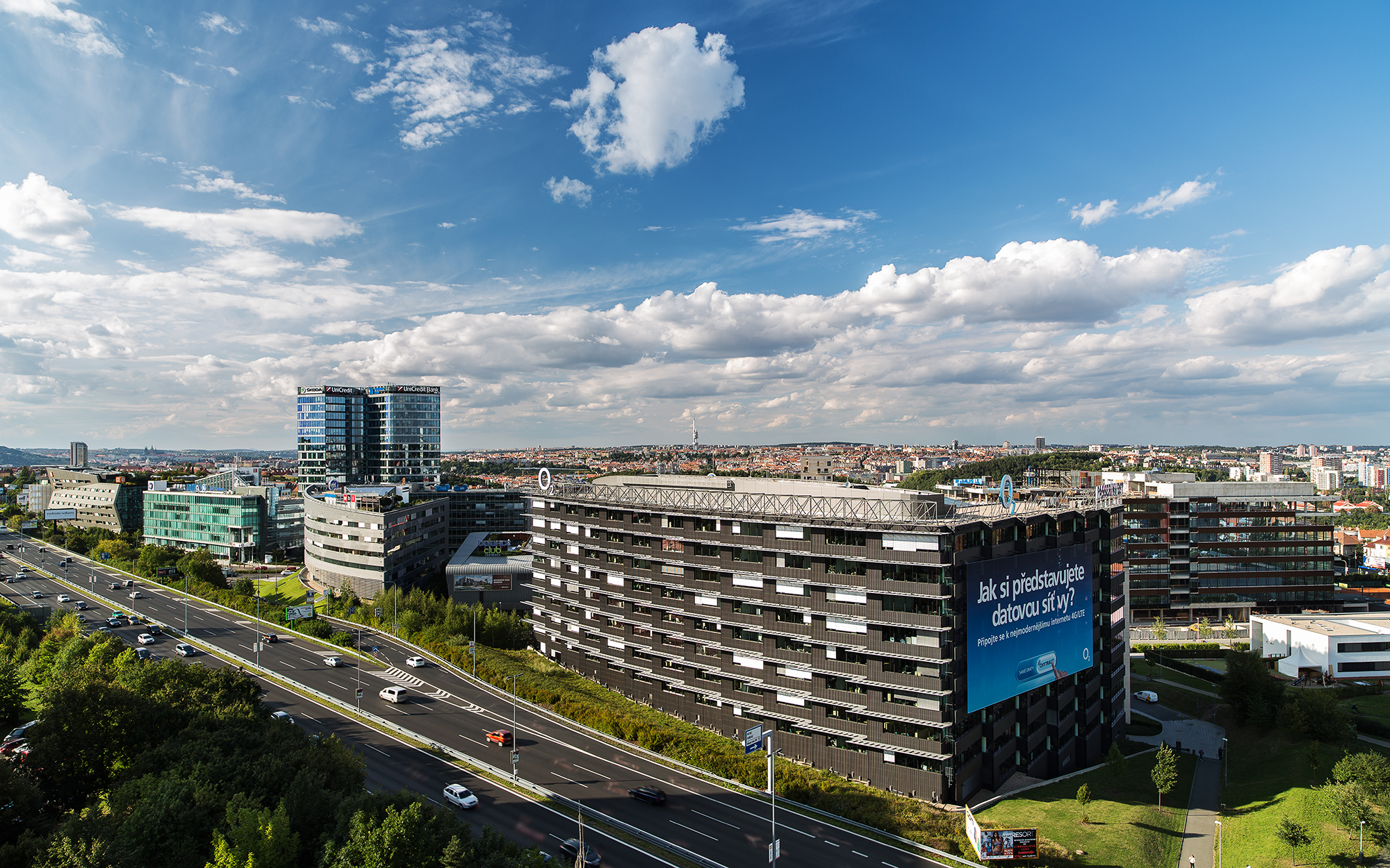 BB centrum business district Prague